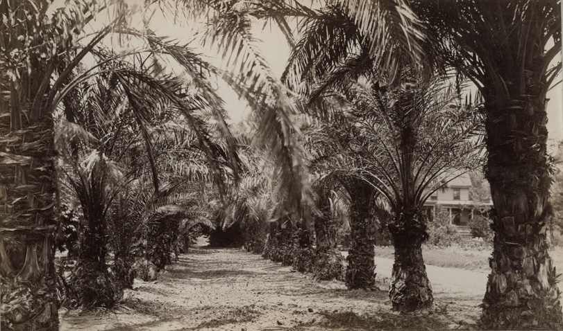 Title: On Hollister's ranch, Santa Barbara Calif. Date palms which bear fine fruit Alternative Title: [On Hollister's ranch, Santa Barbara Calif. Date palms which bear fine fruit] Creator: Stringfield Photographer Date: ca. 1882-1888 Part Of: Place: Santa Barbara, Santa Barbara County, California Physical Description: 1 photographic print on boudoir card mount: albumen; 14 x 22 cm File: ag1982_0197_03c.jpg Rights: Please cite DeGolyer Library, Southern Methodist University when using this file. A high-resolution version of this file may be obtained for a fee. For details see the web page. For other information, . For more information and to view in high resolution, View the